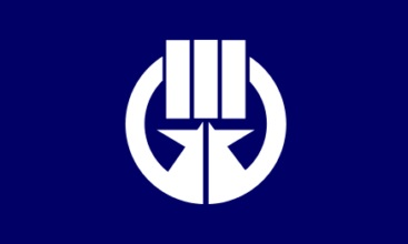 Flag of Kawakita Ishikawa